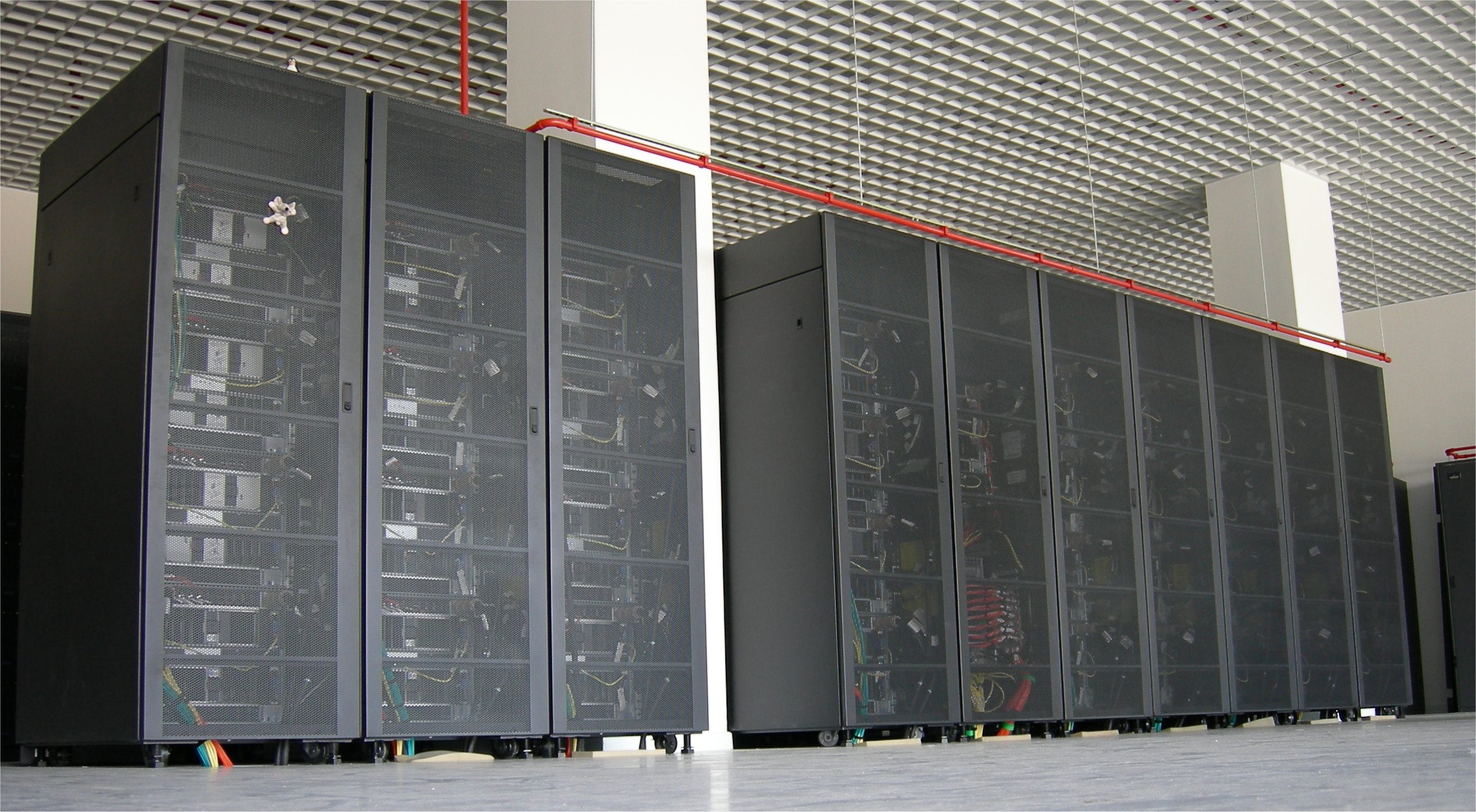 Magerit Supercomputer managed by Supercomputing and Visualization Center of Madrid (CeSViMa), Technical University of Madrid (UPM). This photo is the second version of supercomputer.